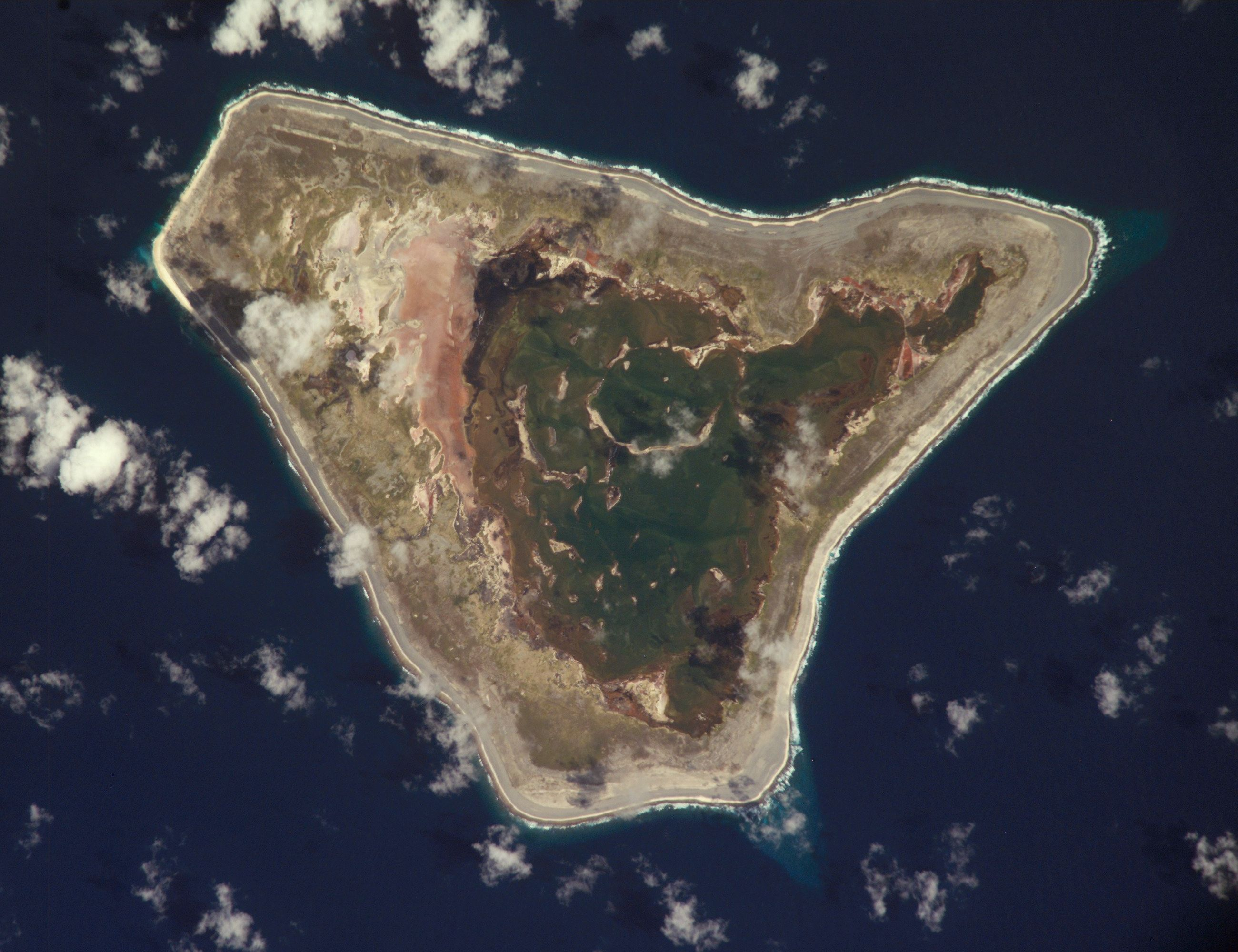 NASA astronaut image of Malden Island (Kiribati) in the Pacific Ocean